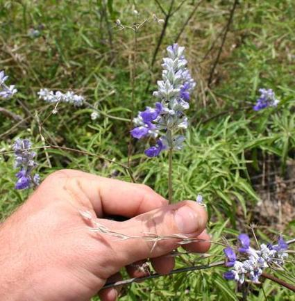 Mealy Cup Sage (Salvia farinacea)